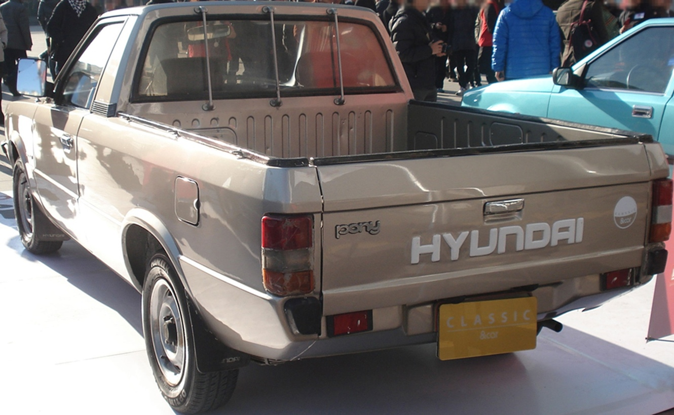 Hyundai Pony Ⅱ Pick Up